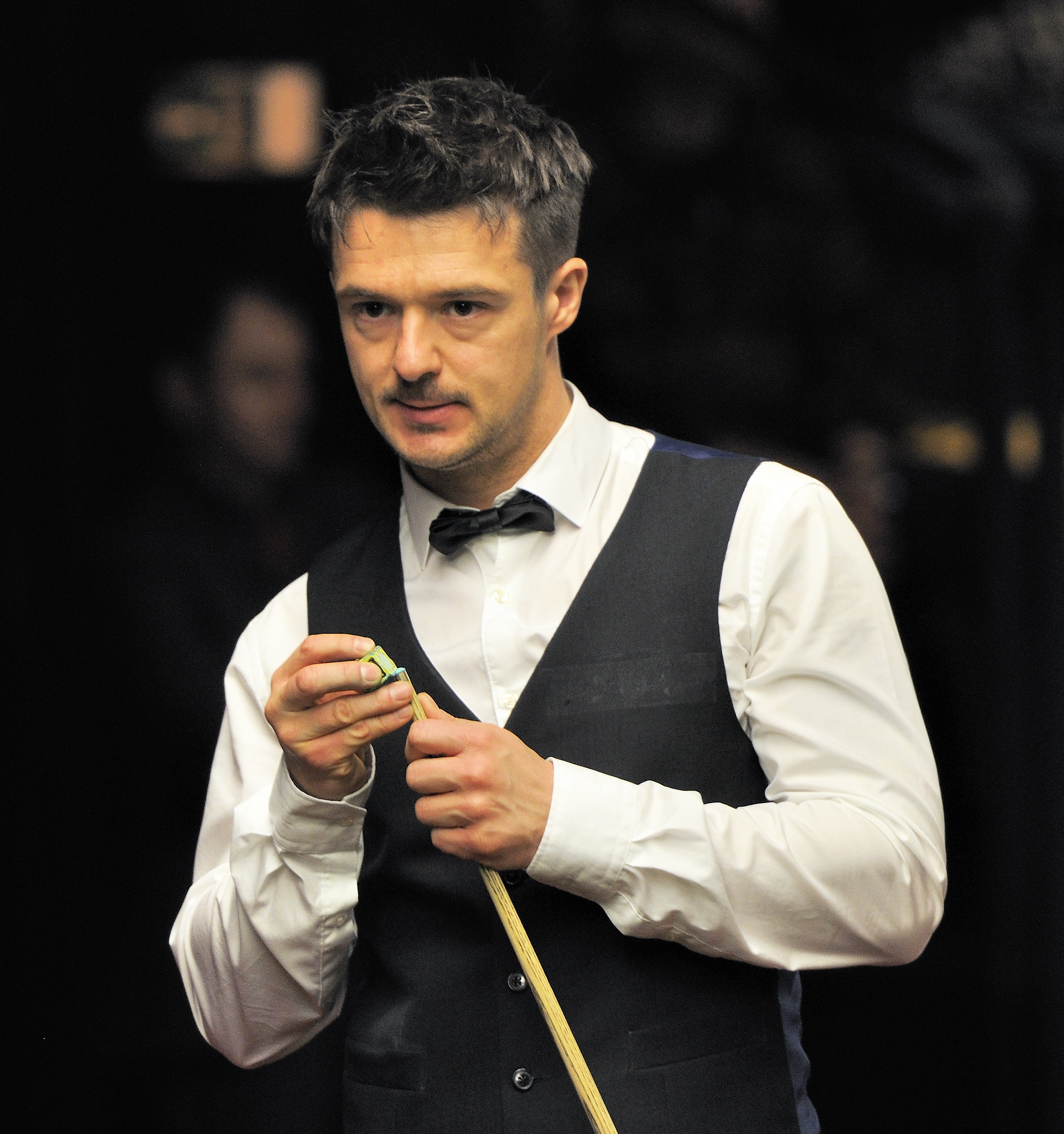 Picture taken in Berlin during the Snooker German Masters in 2014. Michael Holt.